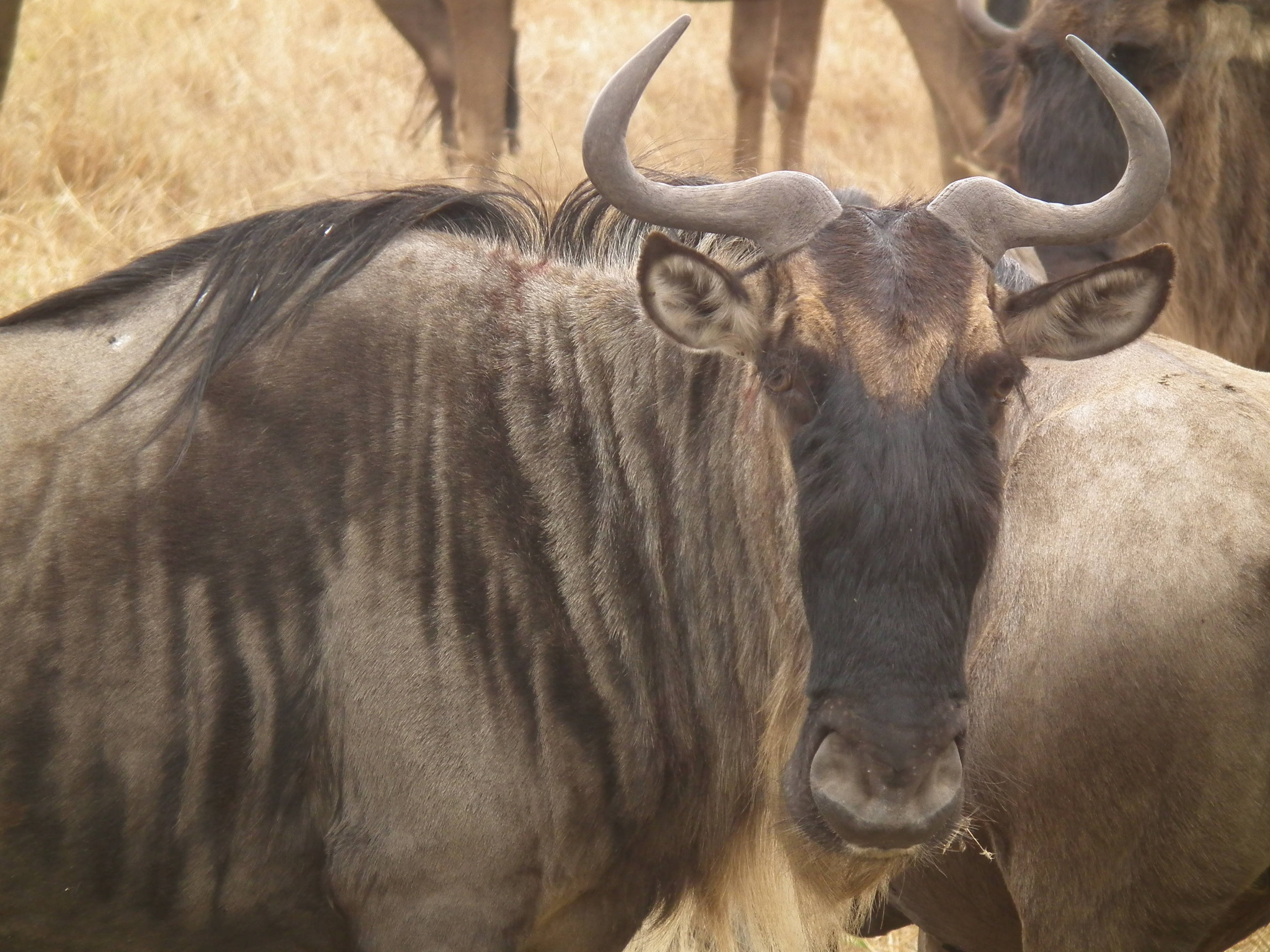 Wildebeest Connochaetes taurinus, picture taken in Tanzania